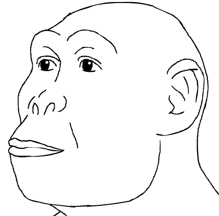 Description: Picture made by mateus zica in October 2005 Mateus Zica Wikipedia User Page is: This image is free to use in anywhere. If you gonna use it ,just send me a email telling me where its gonna be used.Thanks. Source: Mateus Zica